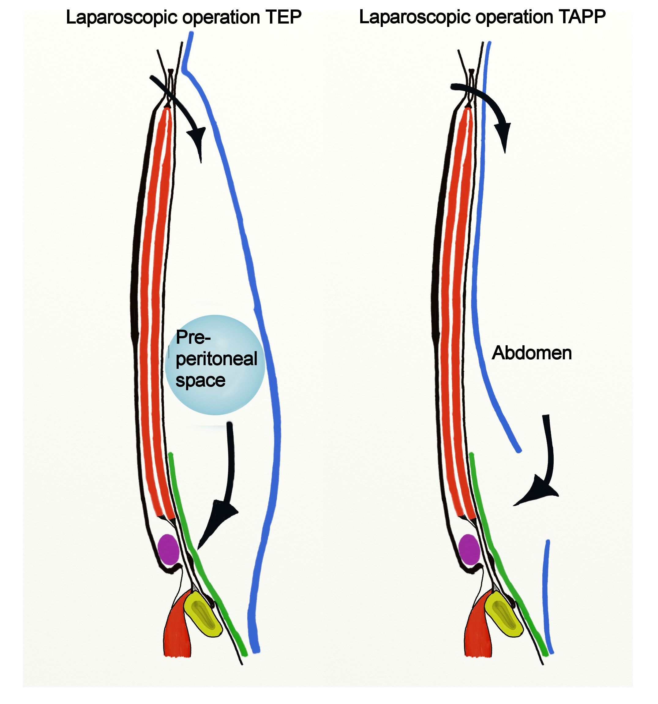 Laparoscopic preperitoneal (TEP) and transperitoneal approach of groin region. Green layer - mesh graft, red - abdomen muscules, blue - peritoneum, violet dot - spermatic cord.